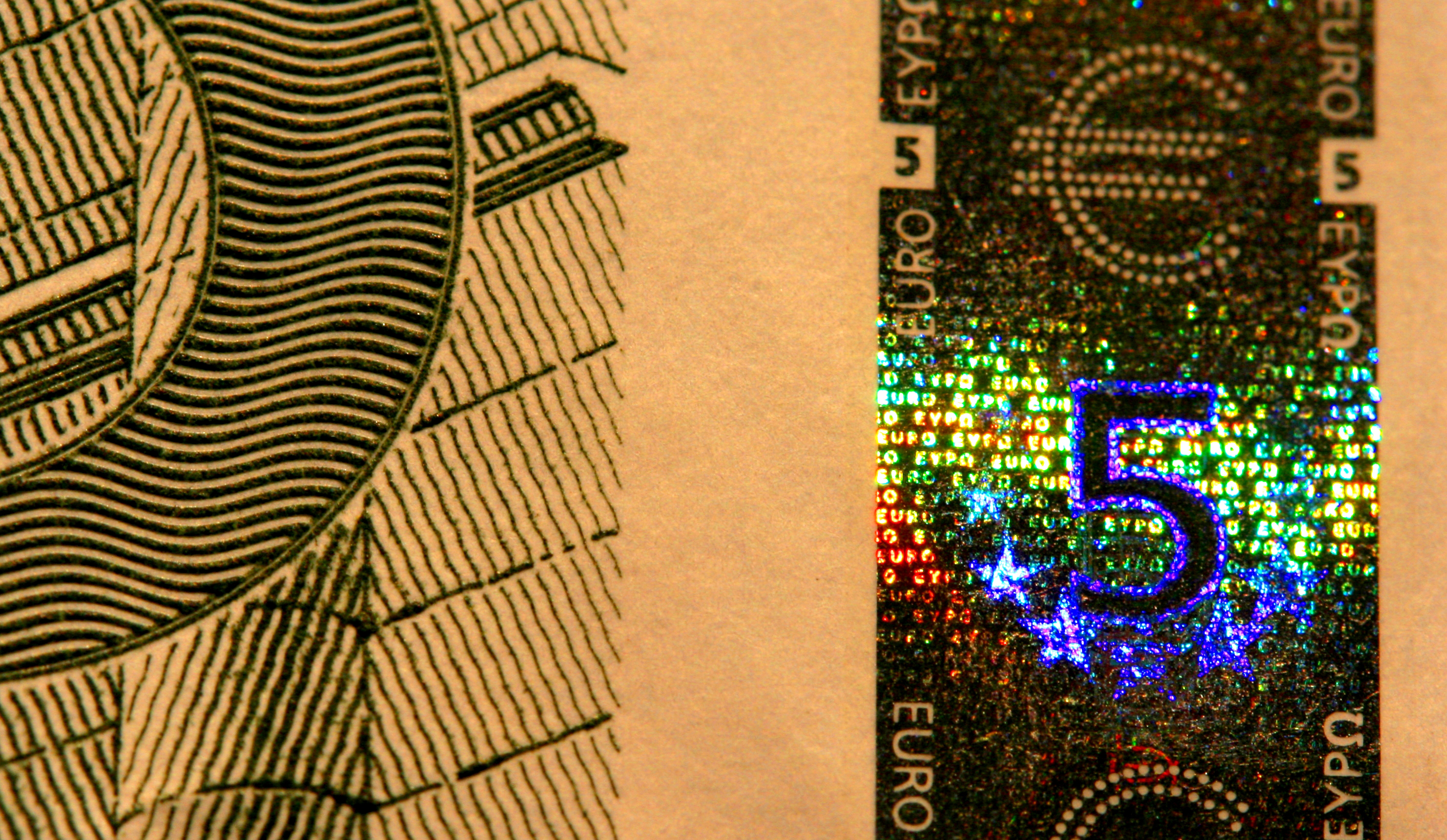 The holographic band on the €5 banknote. NOT copyright violation. See tags below.